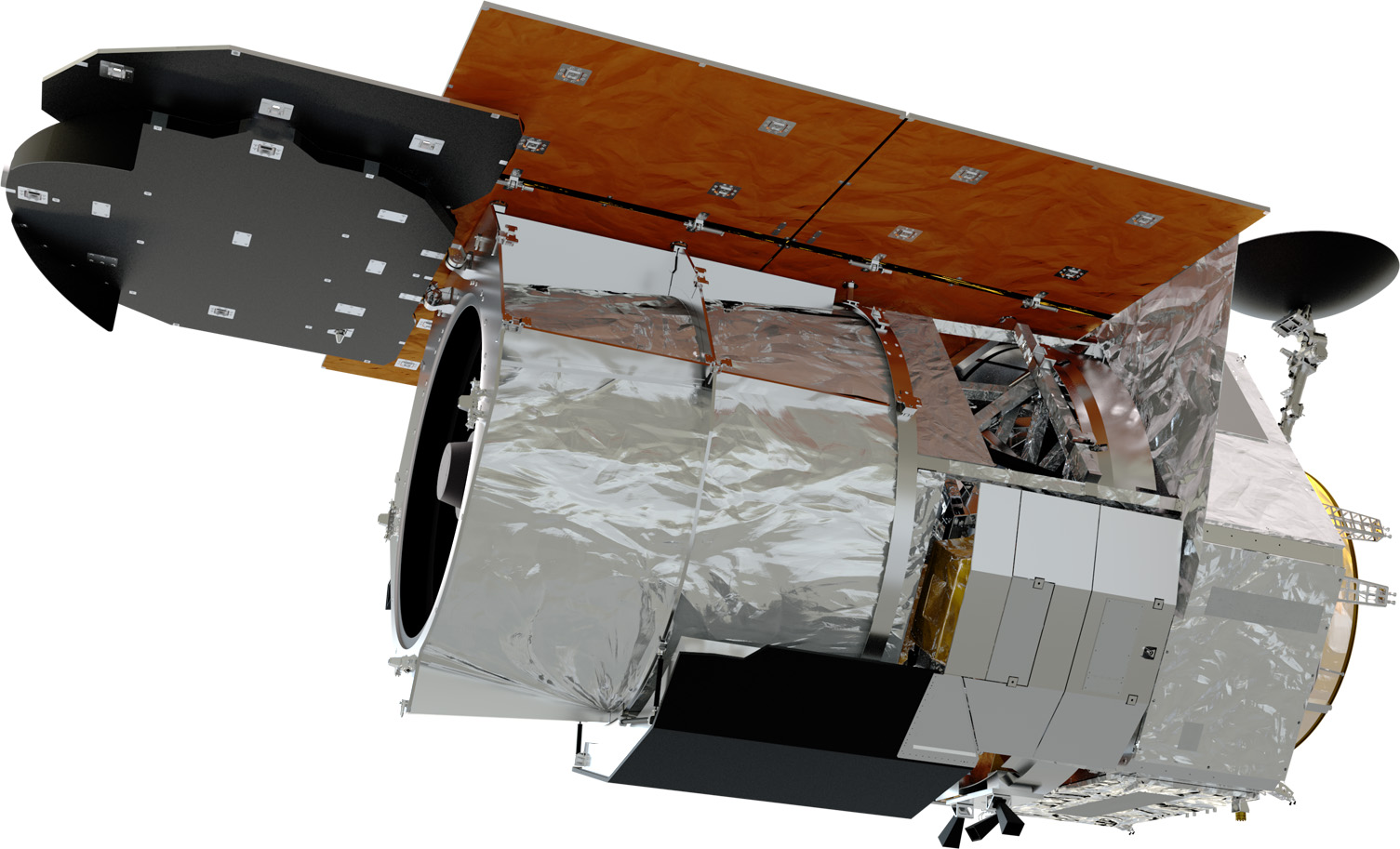 WFIRST mission hardware rendered July 2018 representing current state of design at start of Phase B.